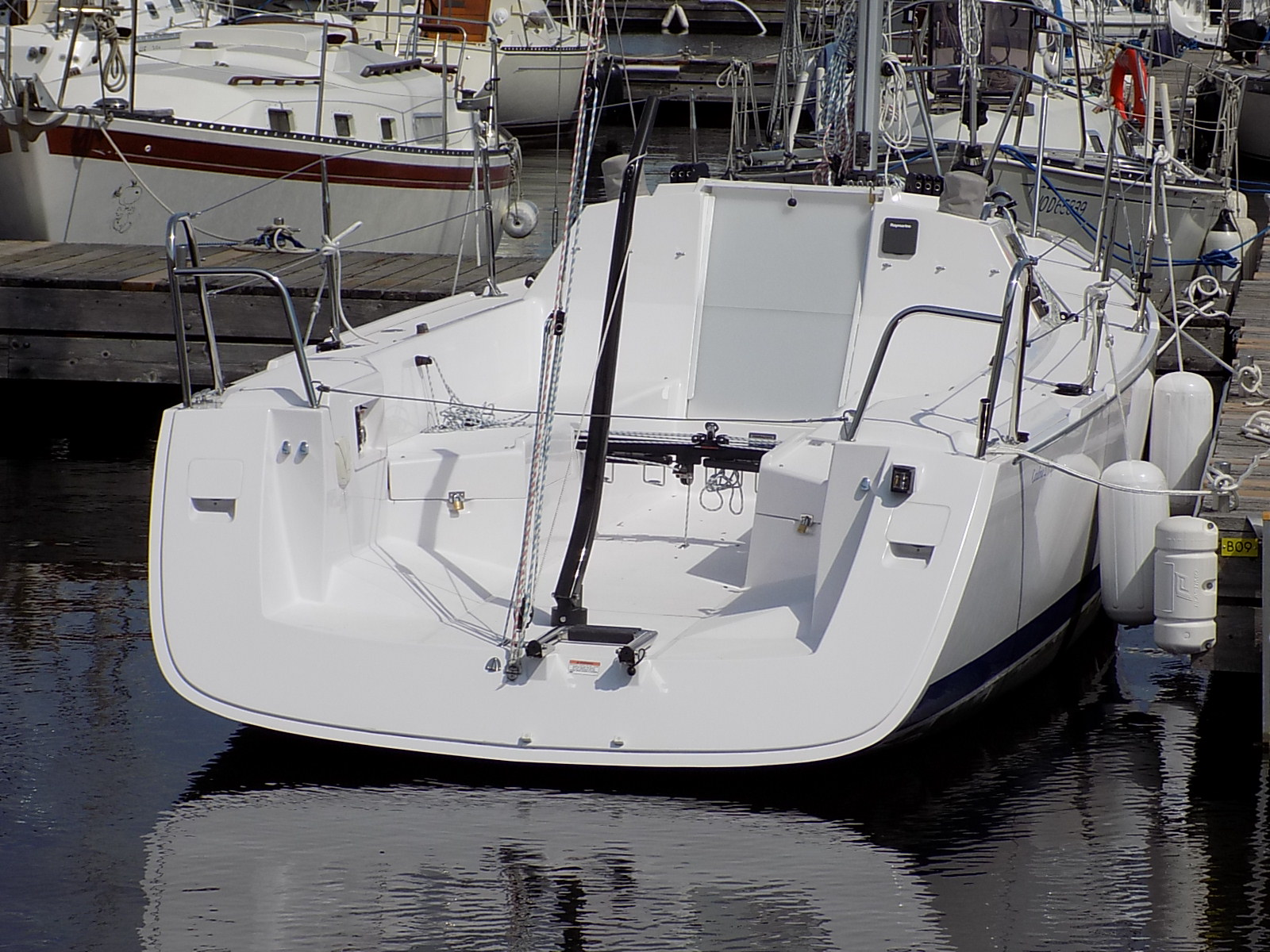 A Catalina 275 Sport sailboat named Wasa, showing the open transom.